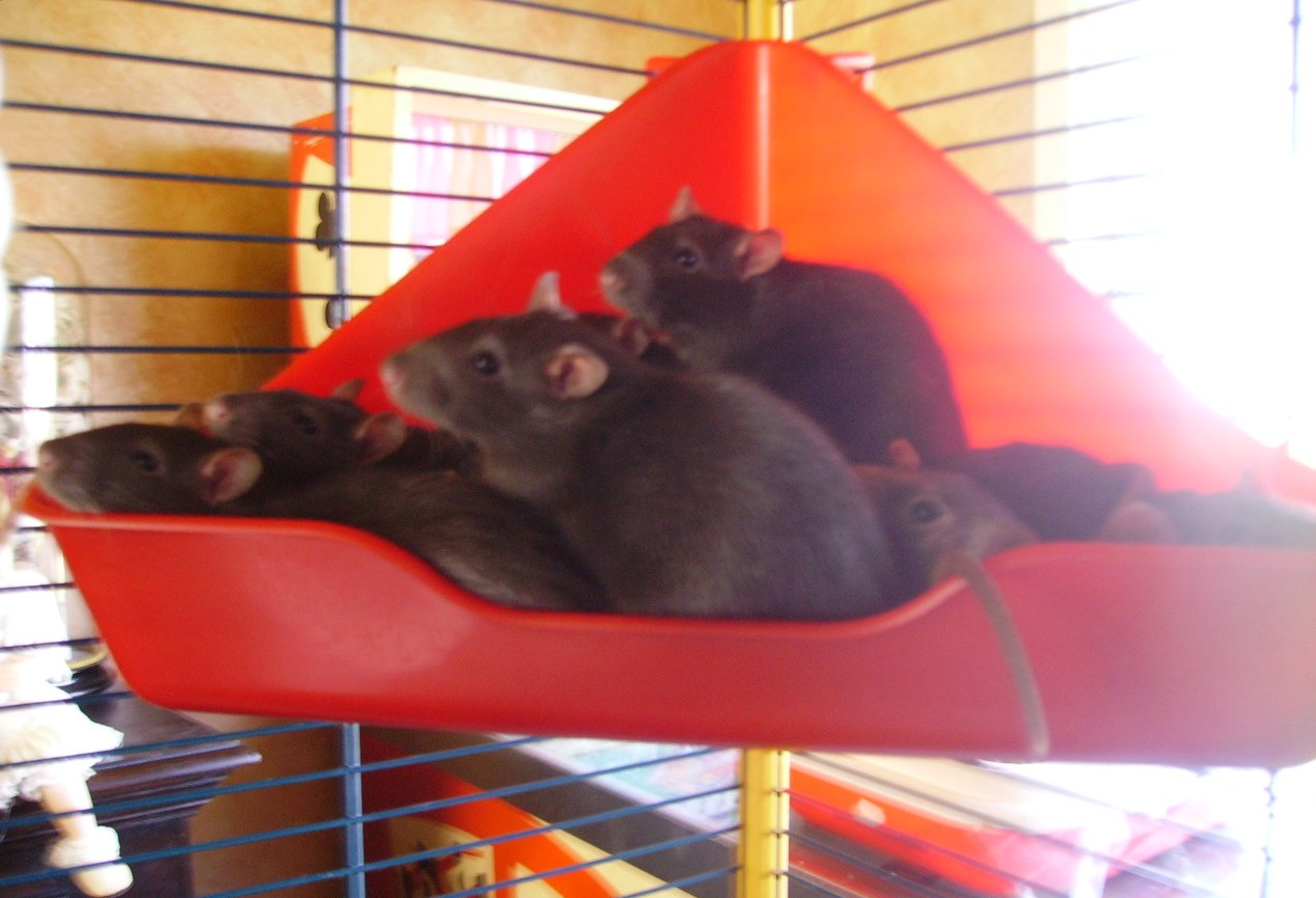 Rats socialising in a hanging toy. Photo: tinneke (